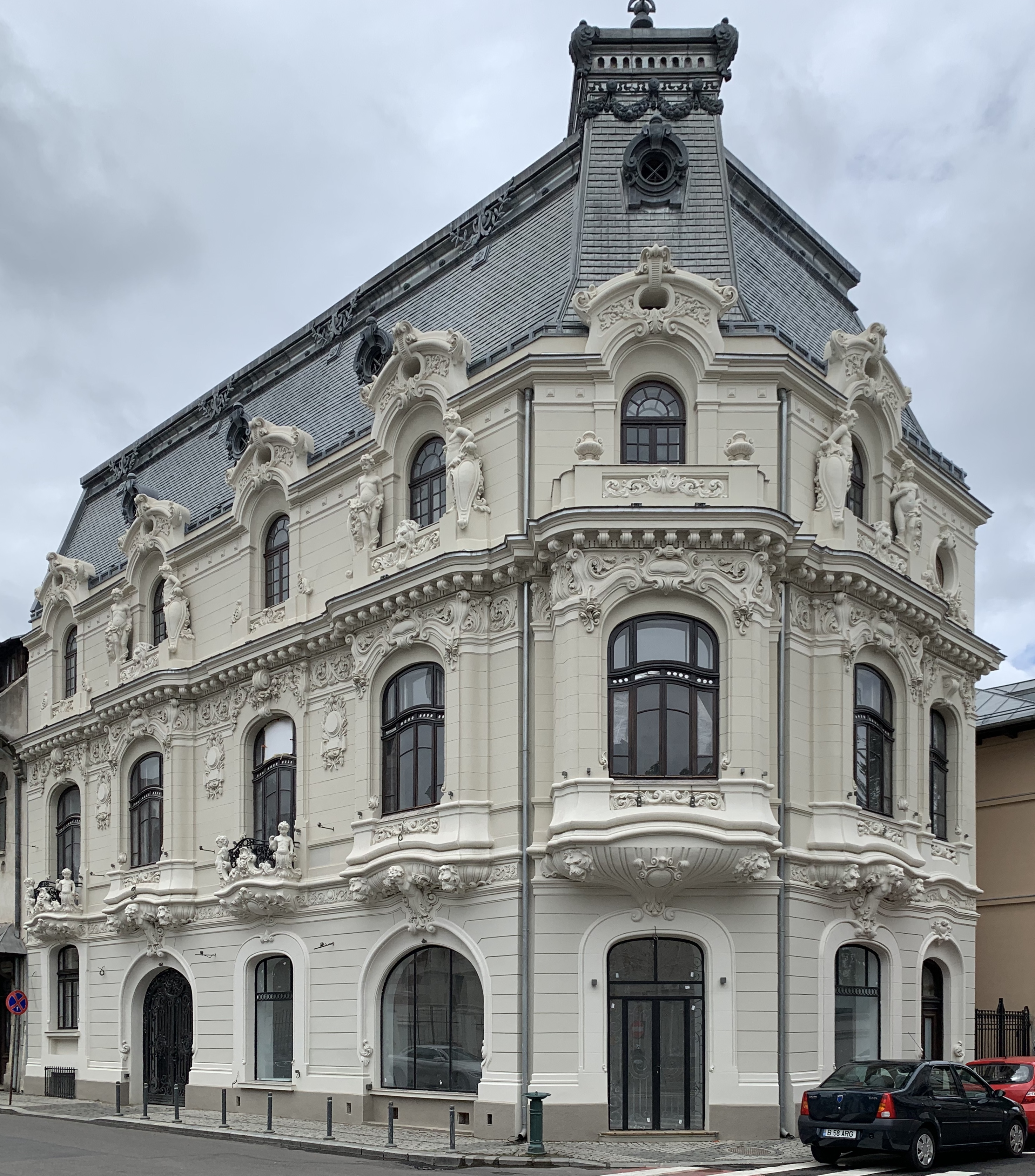 Mița the Cyclist House from Bucharest (Romania)